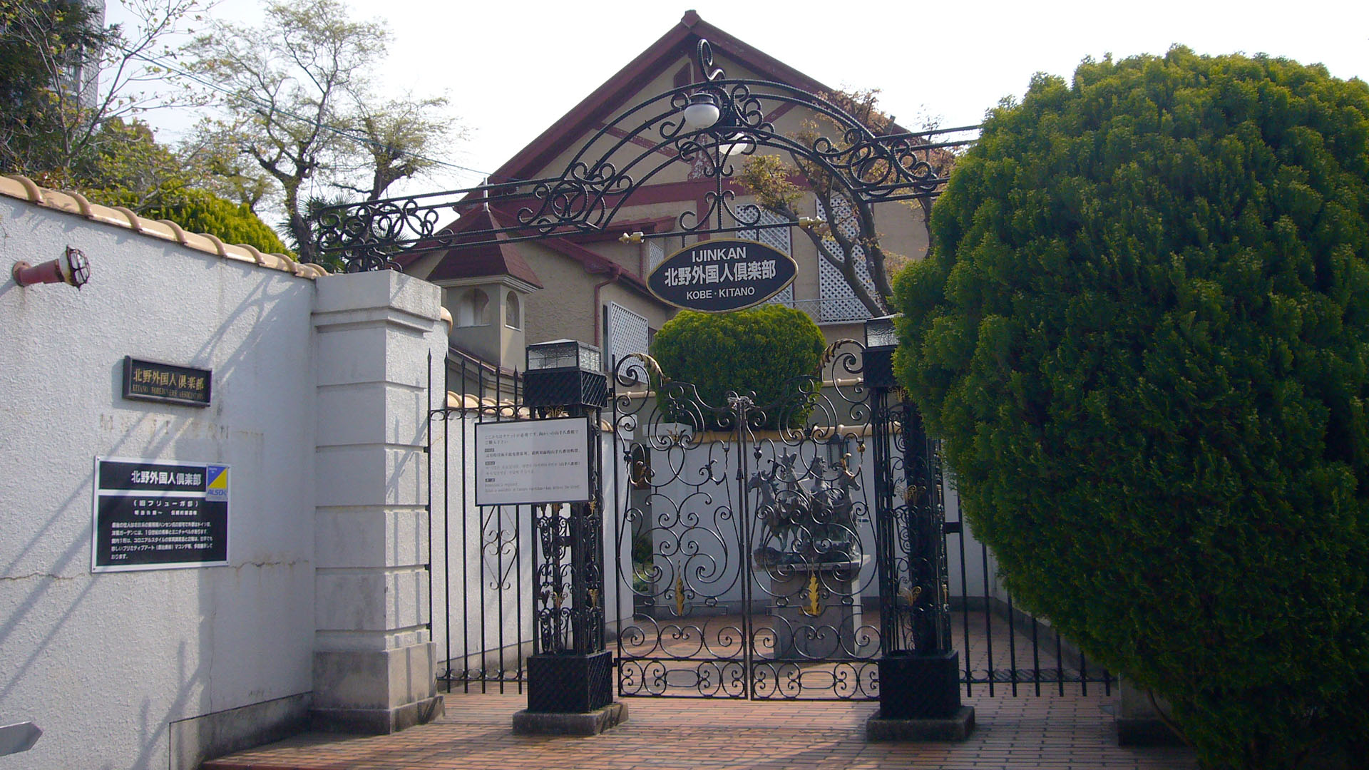 Kitano Foreigners Club in Kobe, Japan